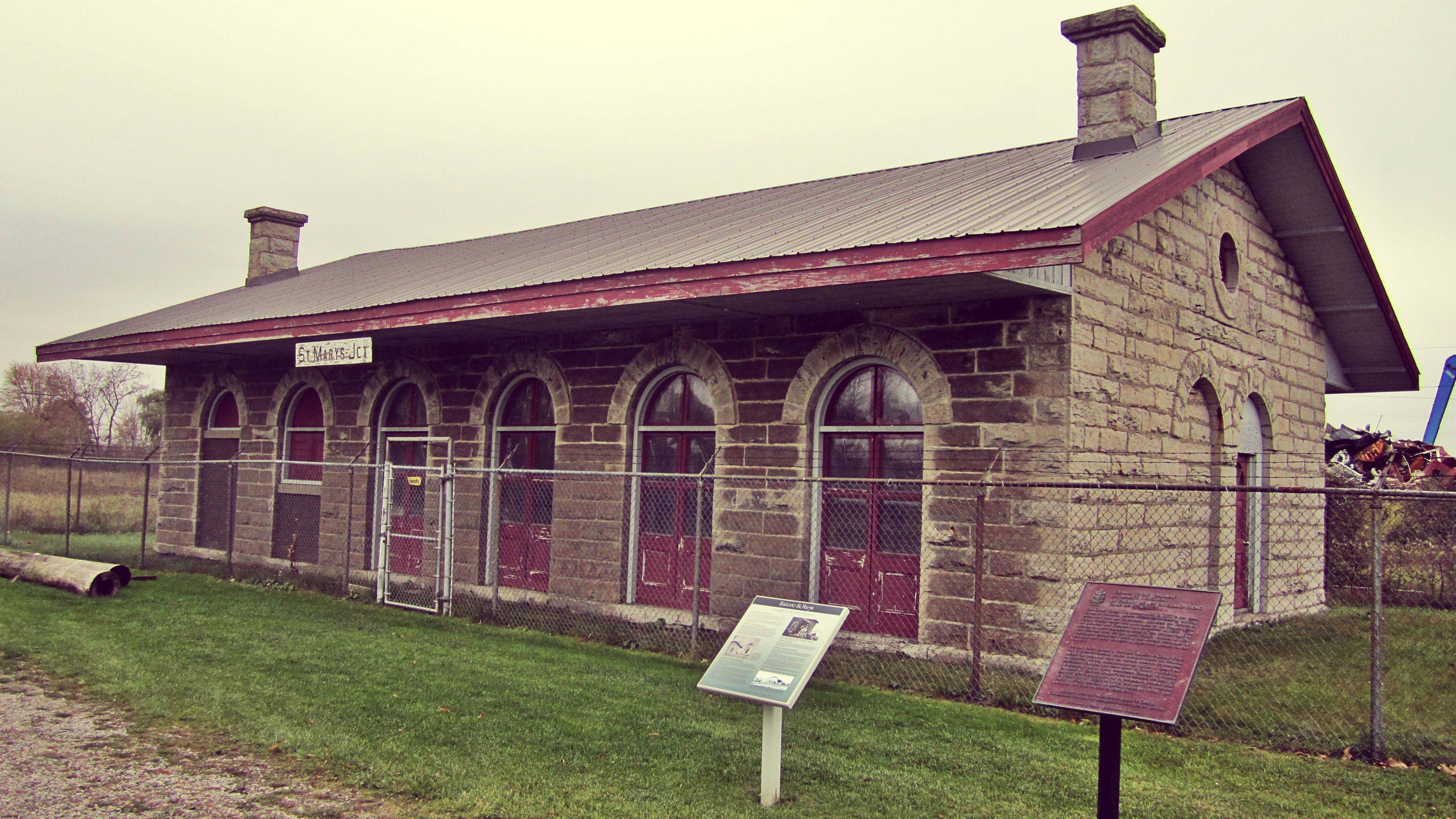 The 1858 Limestone Building, One of the early designs of Grand Trunk Stations